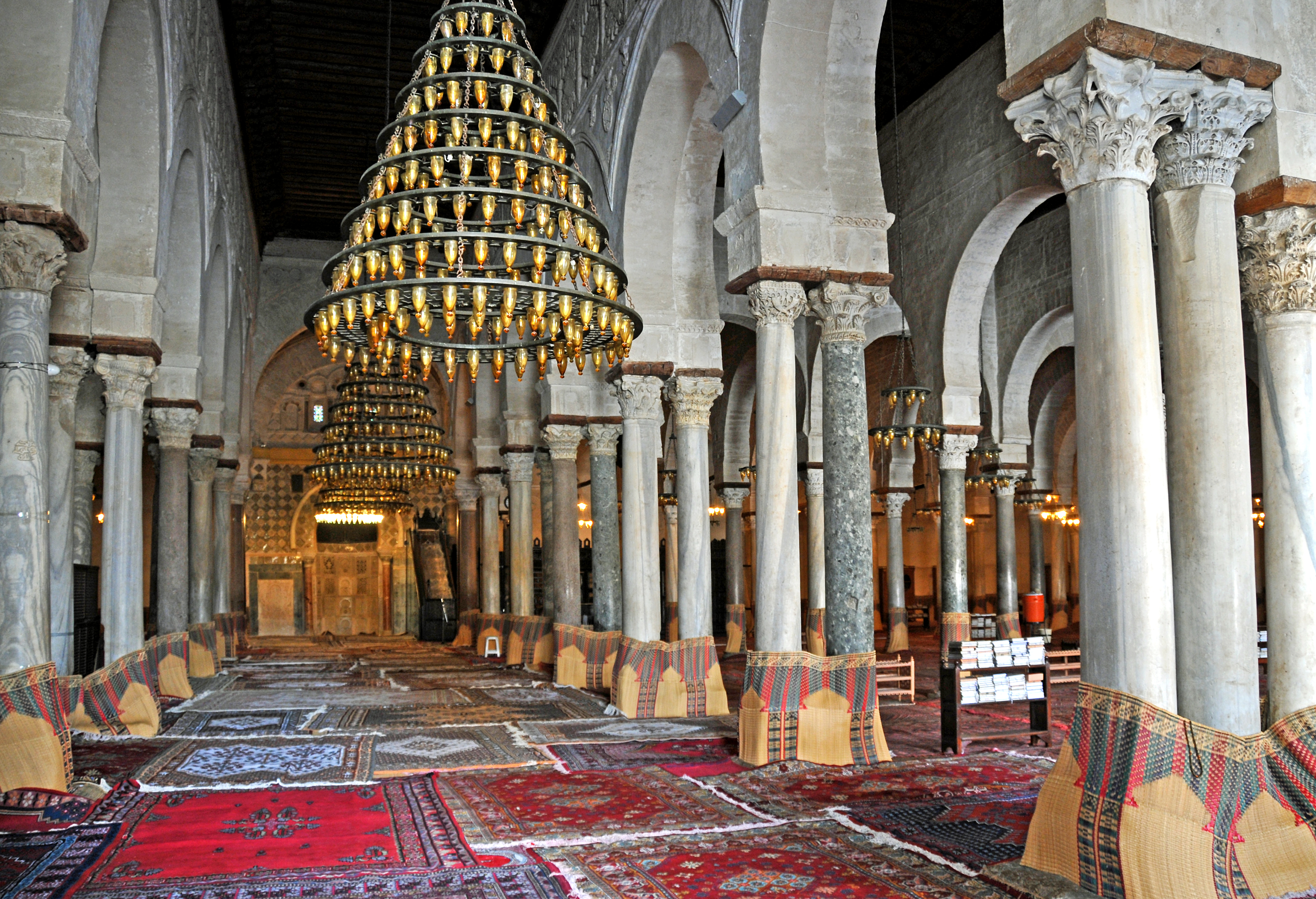 Interior view of the prayer hall of the Great Mosque of Kairouan, in Tunisia. The Great Mosque of Kairouan, also called the Mosque of Uqba, is one of the most important mosques in Tunisia, it is spread over a surface area of 9,000 square meters and it is one of the oldest places of worship in the Islamic world.